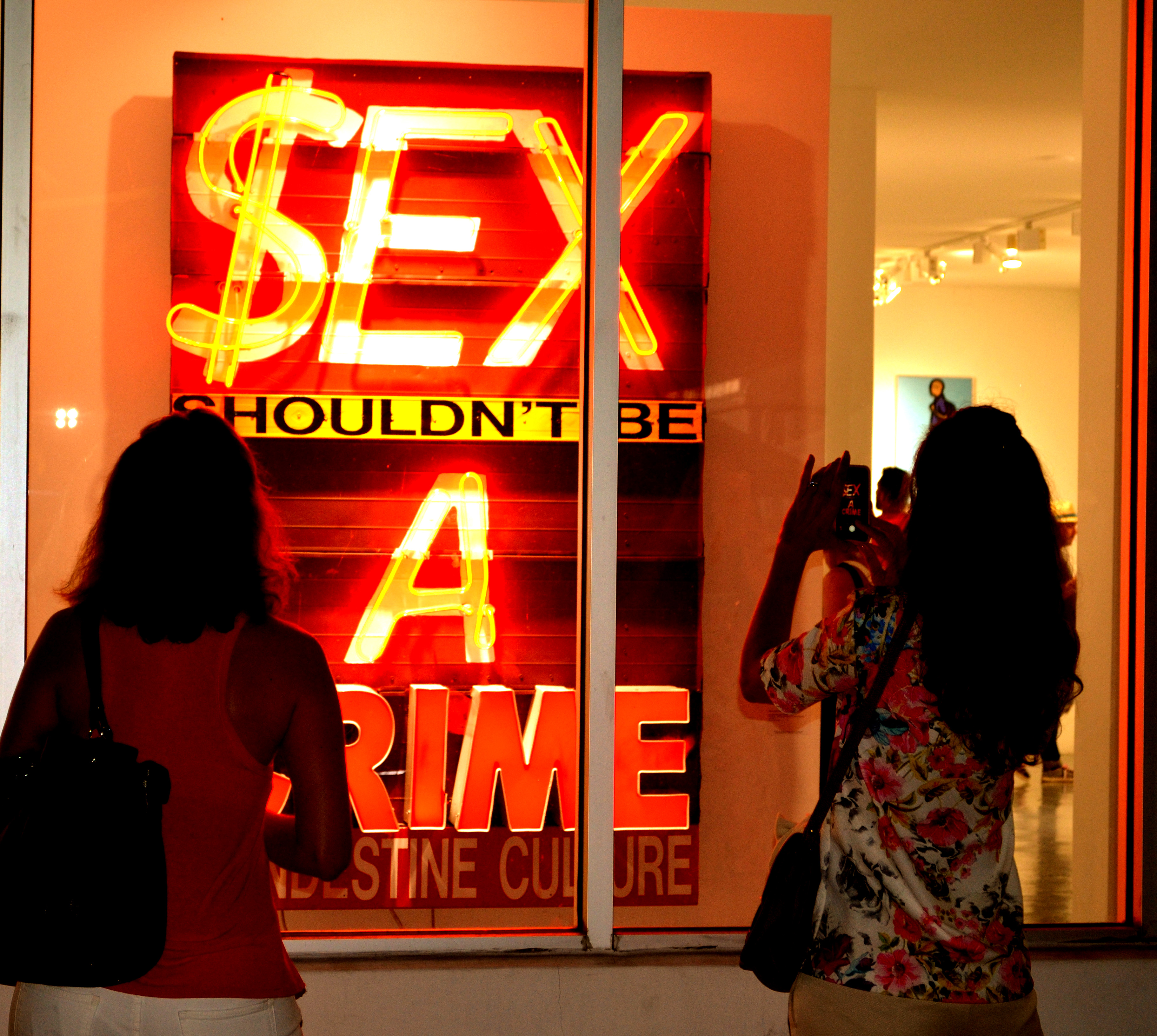 CLANDESTINE CULTURE ,artwork in the gallery